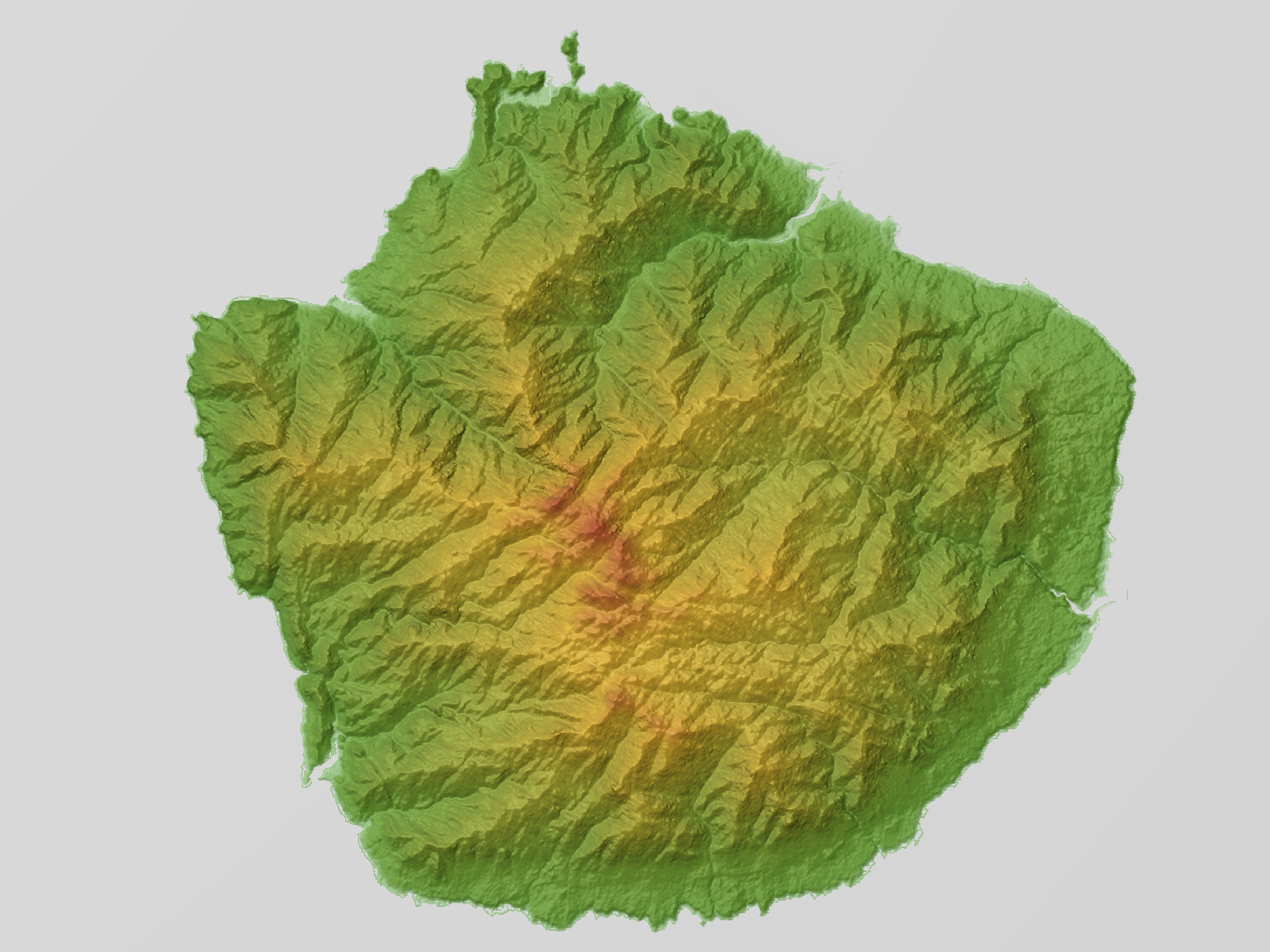 Yakushima in Kagoshima Prefecture, Japan.